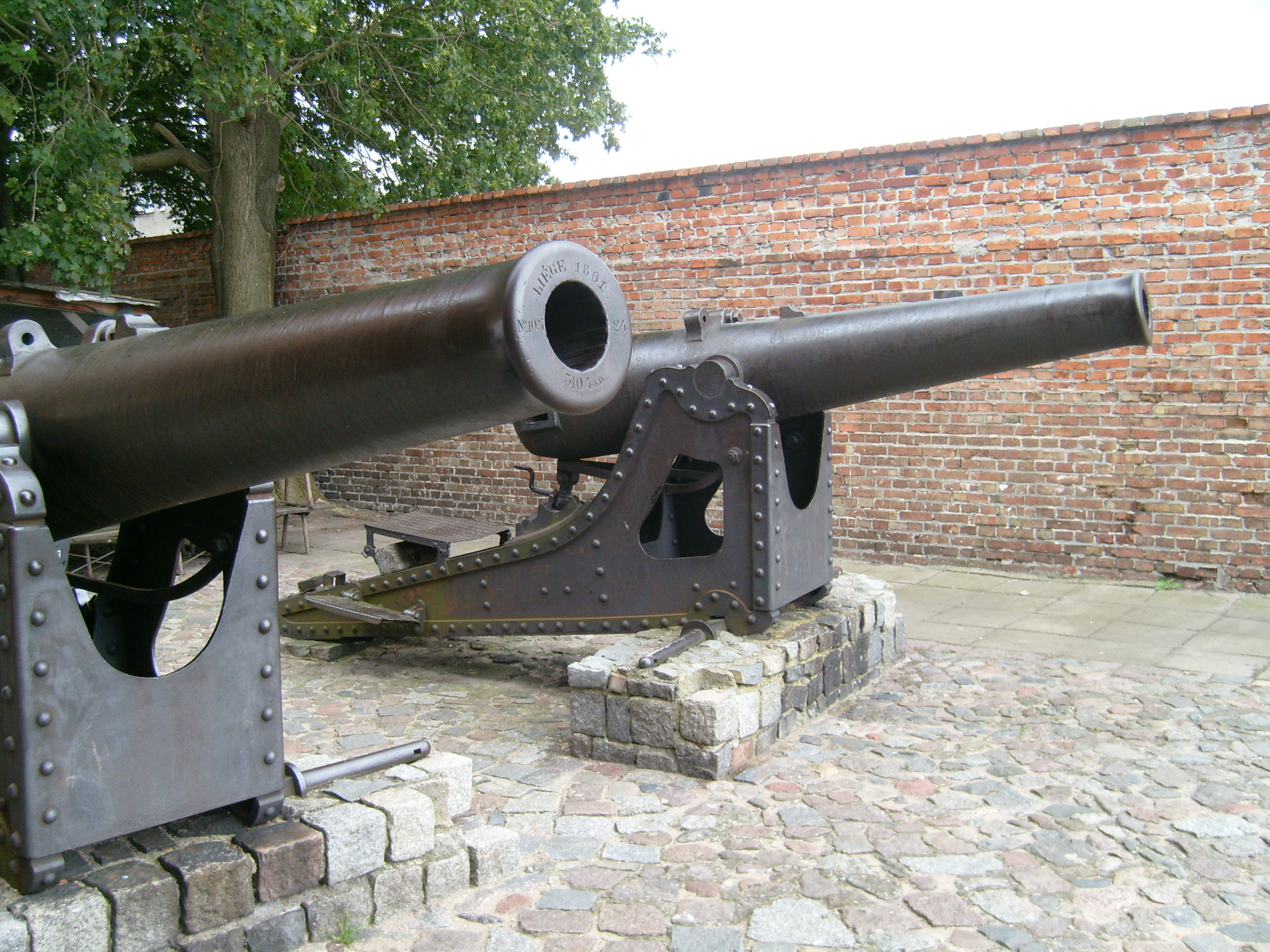 The canons at the castle in Kwidzyn, Poland. Both made in Liege, left in 1861 (no. 105, weight 310,4 kg), right in 1863 (no. 345, weight 311,7 kg). See also Kwidzyn castle cannons2.jpg